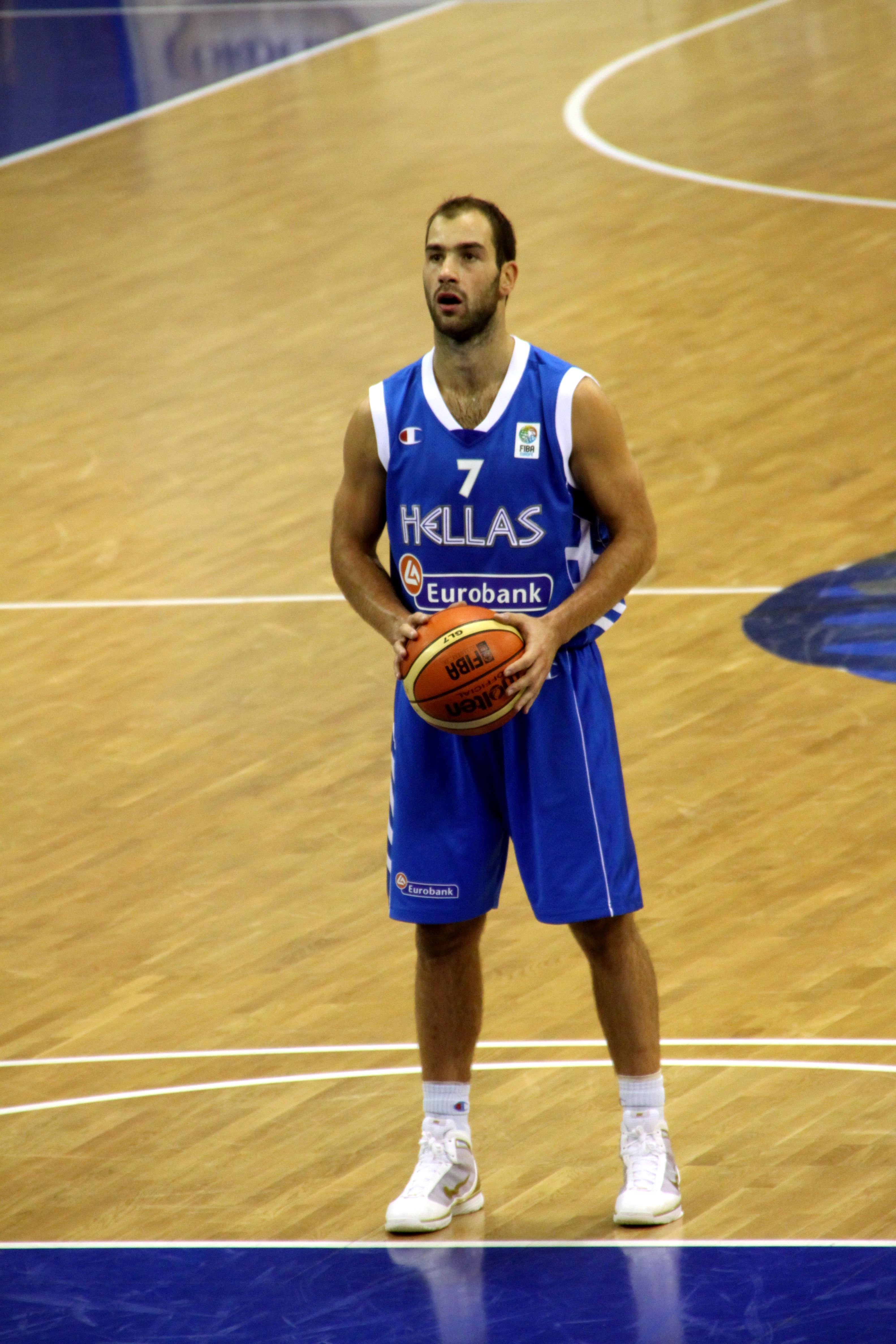 Vasileios Spanoulis ready for a free throw... [Israel 80-106 Greece, Eurobasket 2009, Poland] Israel 80-106 Greece